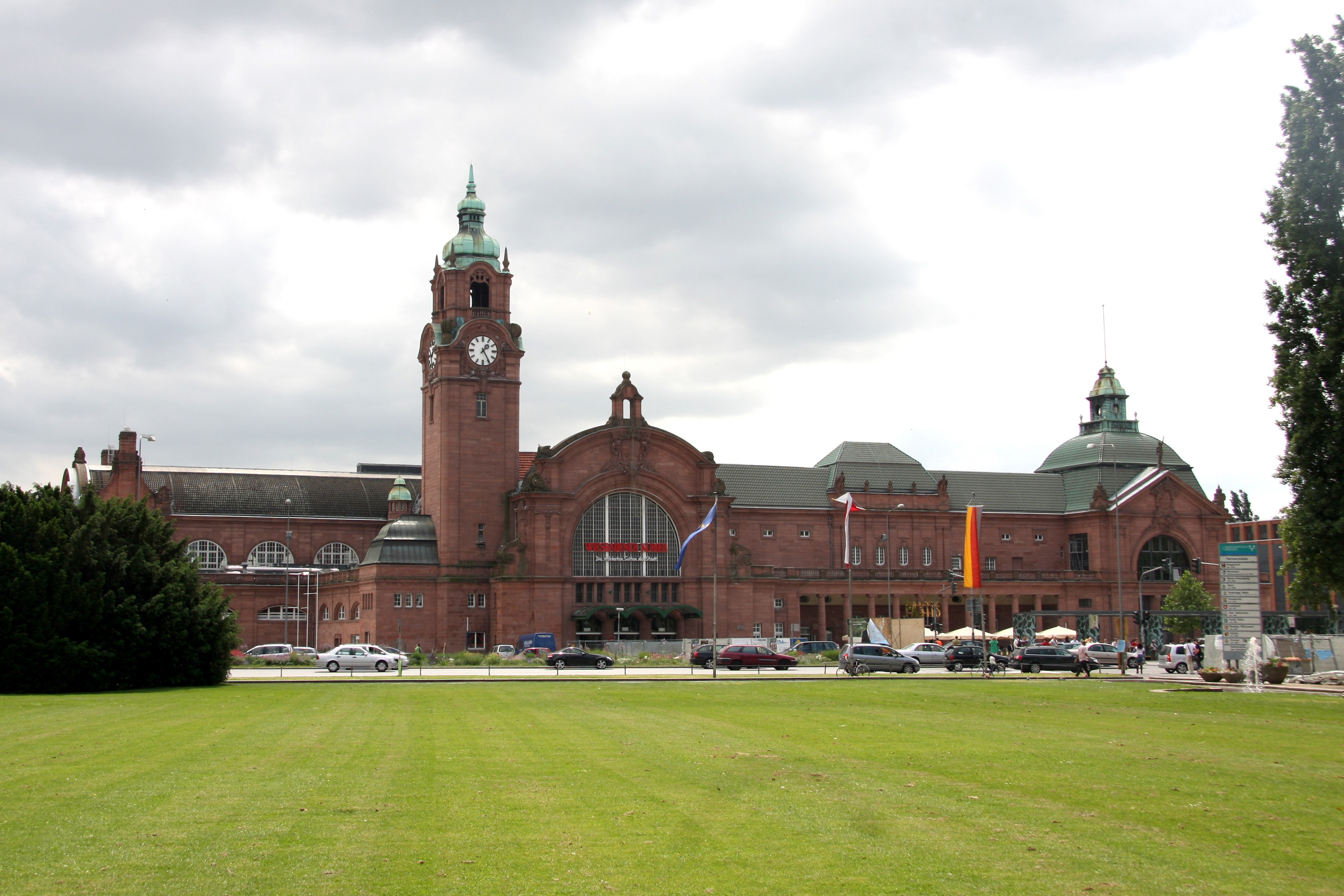 Wiesbaden Hauptbahnhof